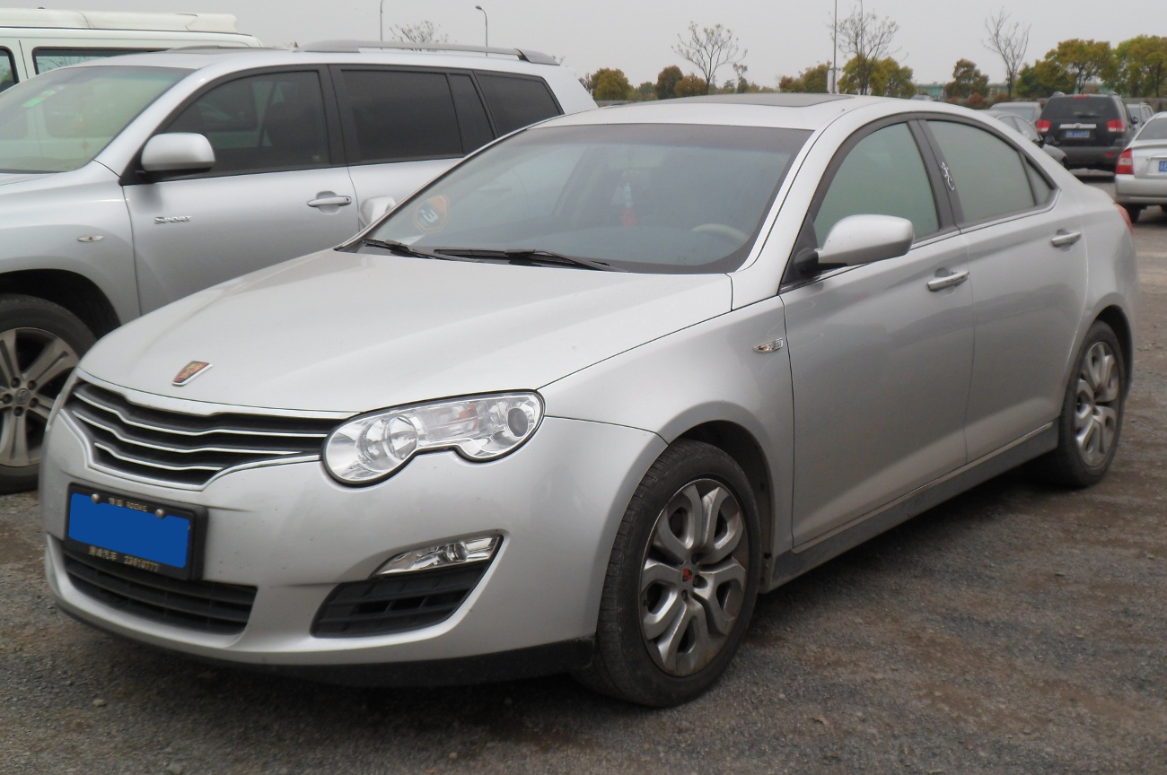 Roewe 550 photographed in Anting, Shanghai municipality, China.